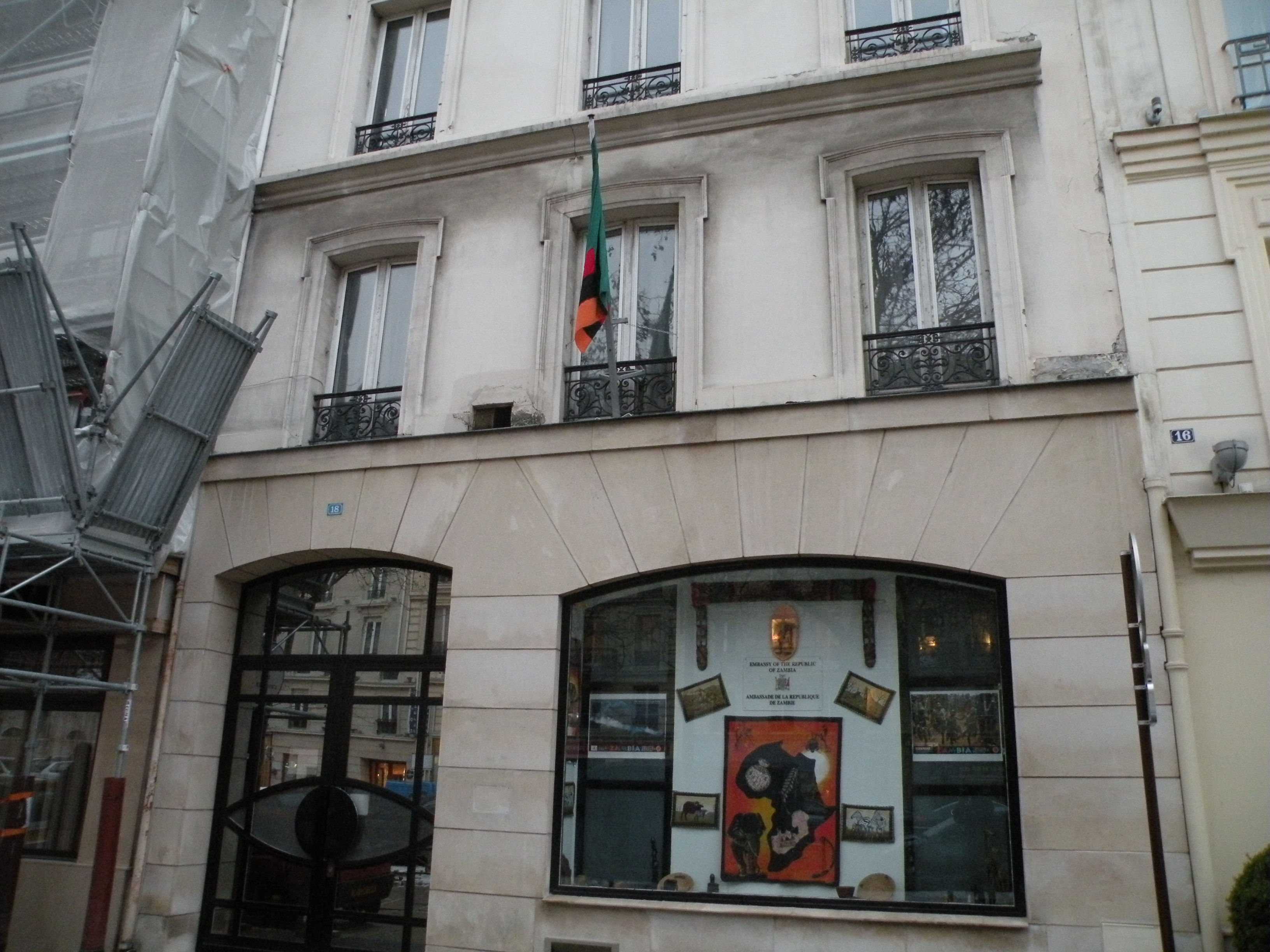 Zambian embassy in France, Paris.